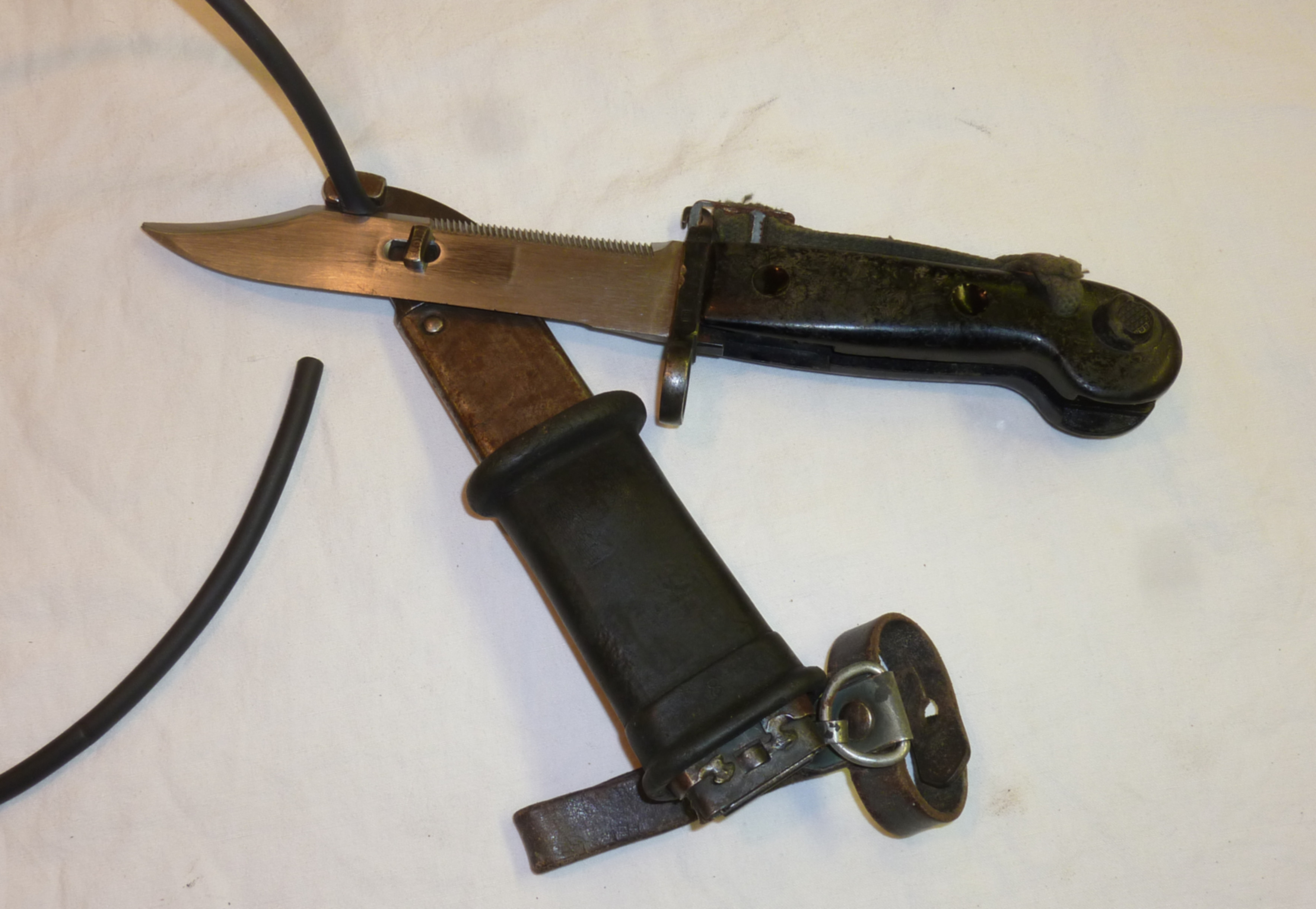 The wire cutting AKM Type I bayonet formerly of the NVA (Nationale Volksarmee). The top edge of the blade can be used as a saw. The handle is made of an electrical insulator and the metal sheath is fitted with a rubber insulator as well so a live, high-voltage wire may be cut. Since the wire cutting edges are not insulated, cutting an electrified cable with both a live wire and a neutral wire will cause a short-circuit that can produce a bright flash of light and melt parts of the bayonet away. Actual cable cut for demonstration. NATO Foreign Weapons Training. (2/2)